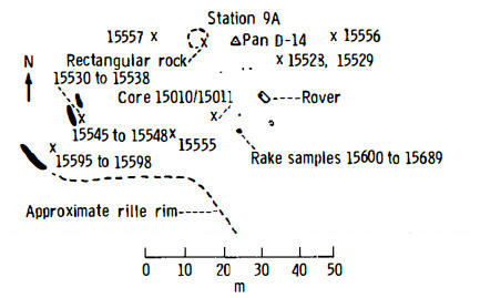 Figure 5-115 (edited slightly). Planimetric map of Apollo 15 Geology Station 9A. X indicates sample locations, 5-digit numbers are LRL sample numbers, rectangle is lunar rover (dot indicates TV camera), black spots are large rocks, dashed lines are crater rims or other topographic features, and triangles are panorama stations.